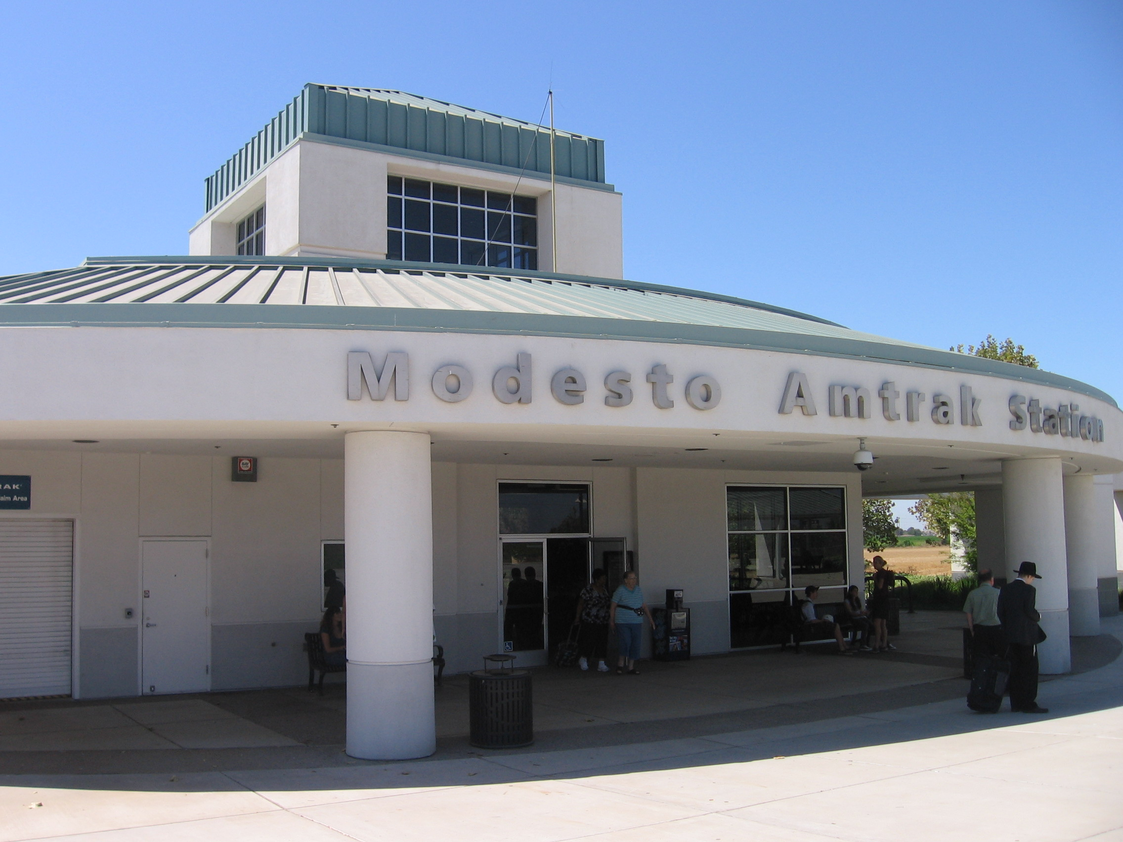 Track-facing side of the Modesto Amtrak Station.